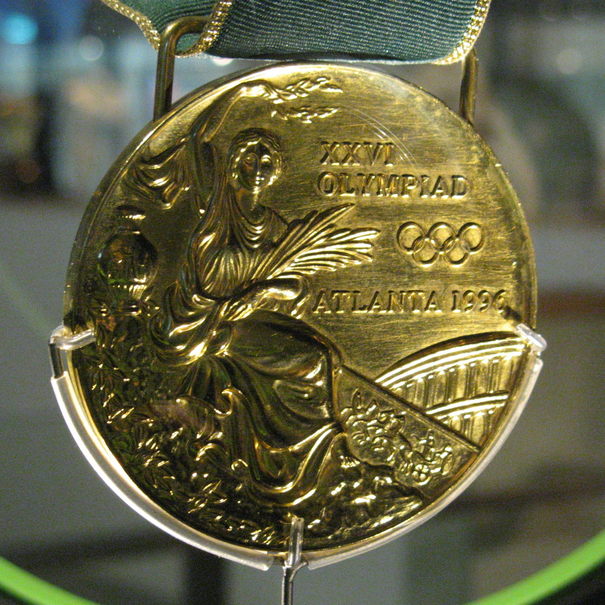 Olympic gold medal won by Nova Peris, Atlanta 1996 (Obverse) On display at the National Museum of Australia, Canberra. Item #2005.0092.0044.001